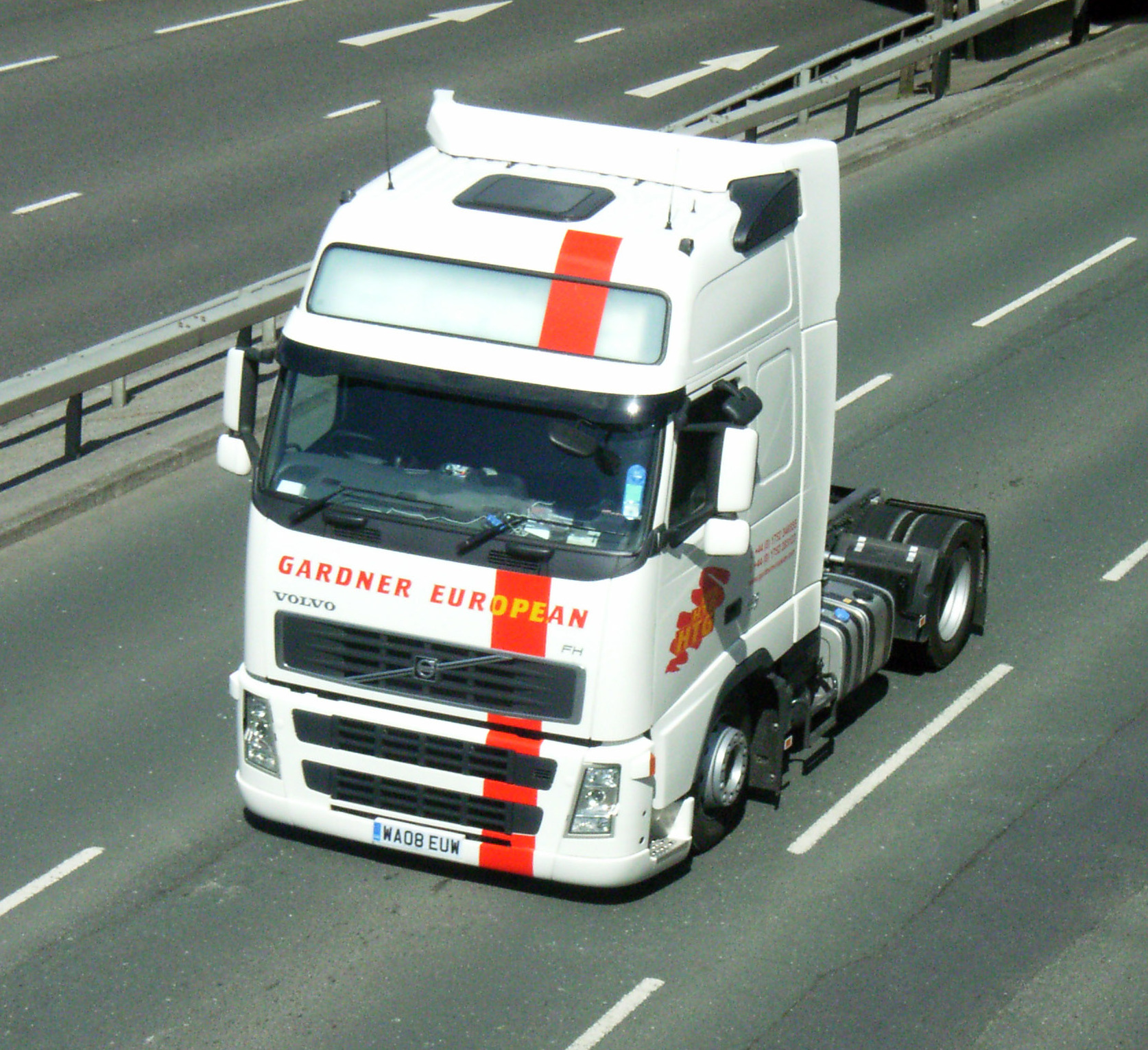 Crownhill Plymouth 7 April 2008